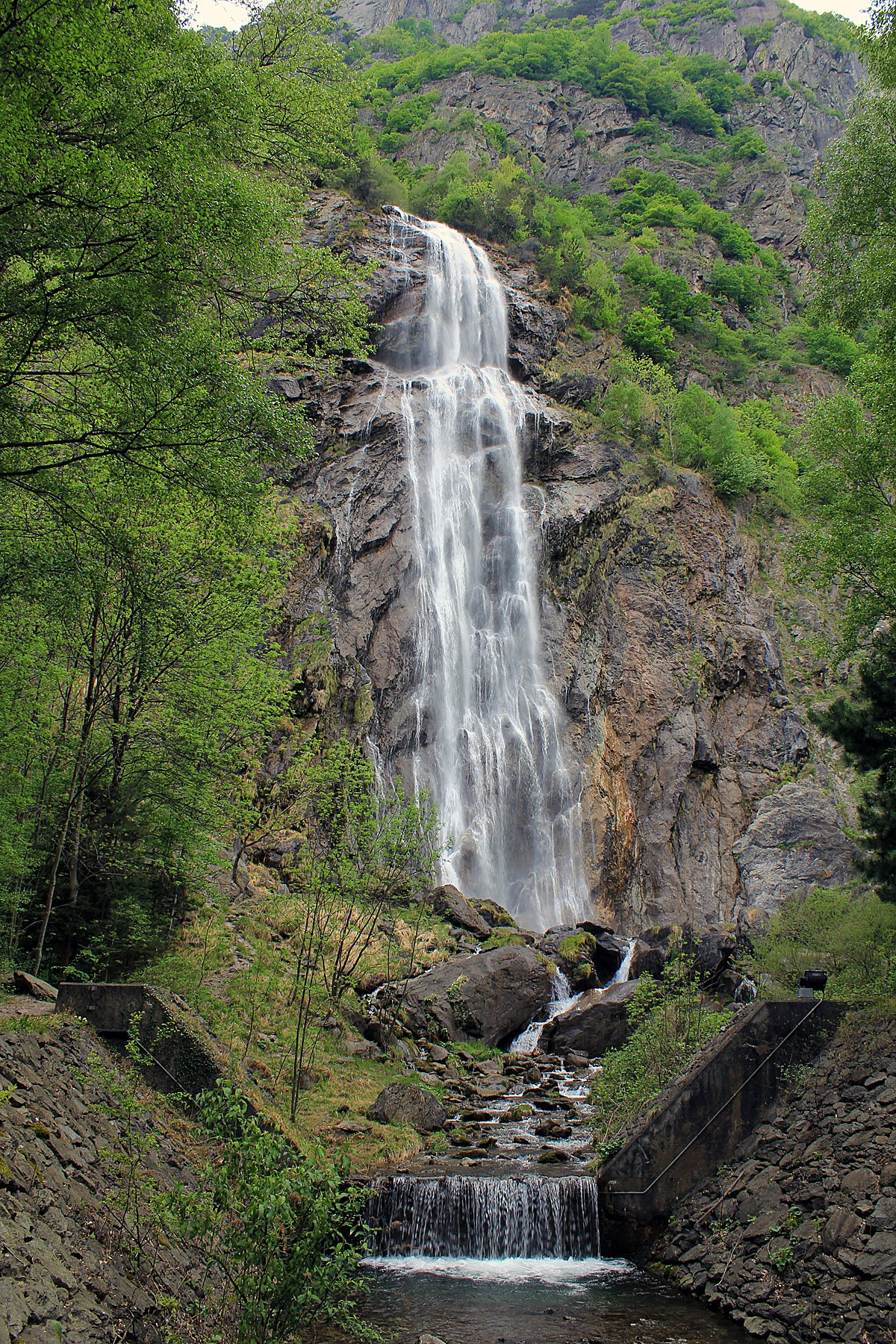 Close view of the Pissevache waterfall